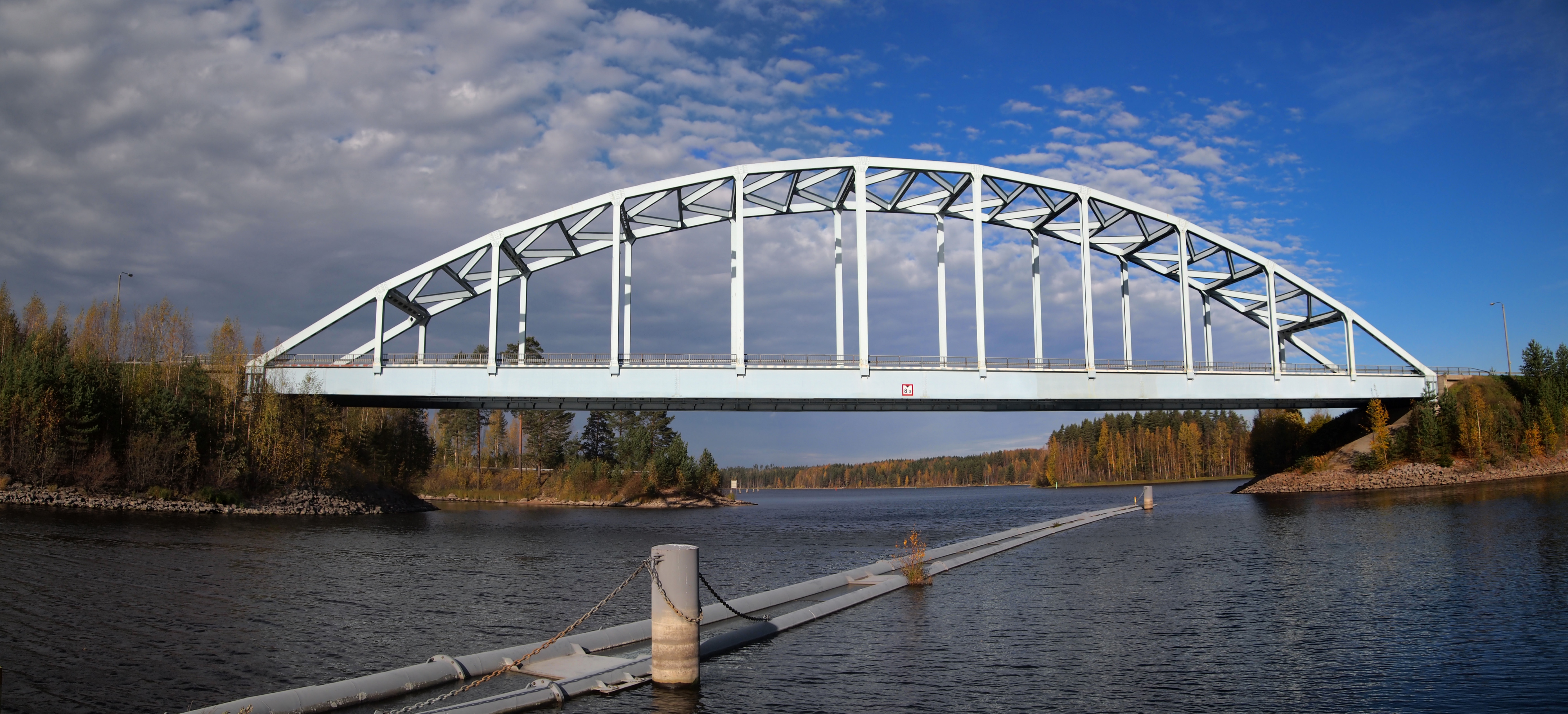 View from the foreland Kapeenniemi in Äänekoski to the bridge Ison pörrin silta. The bridge is situated on the street Suonenjoentie. This photograph was taken with an Olympus E-PL1